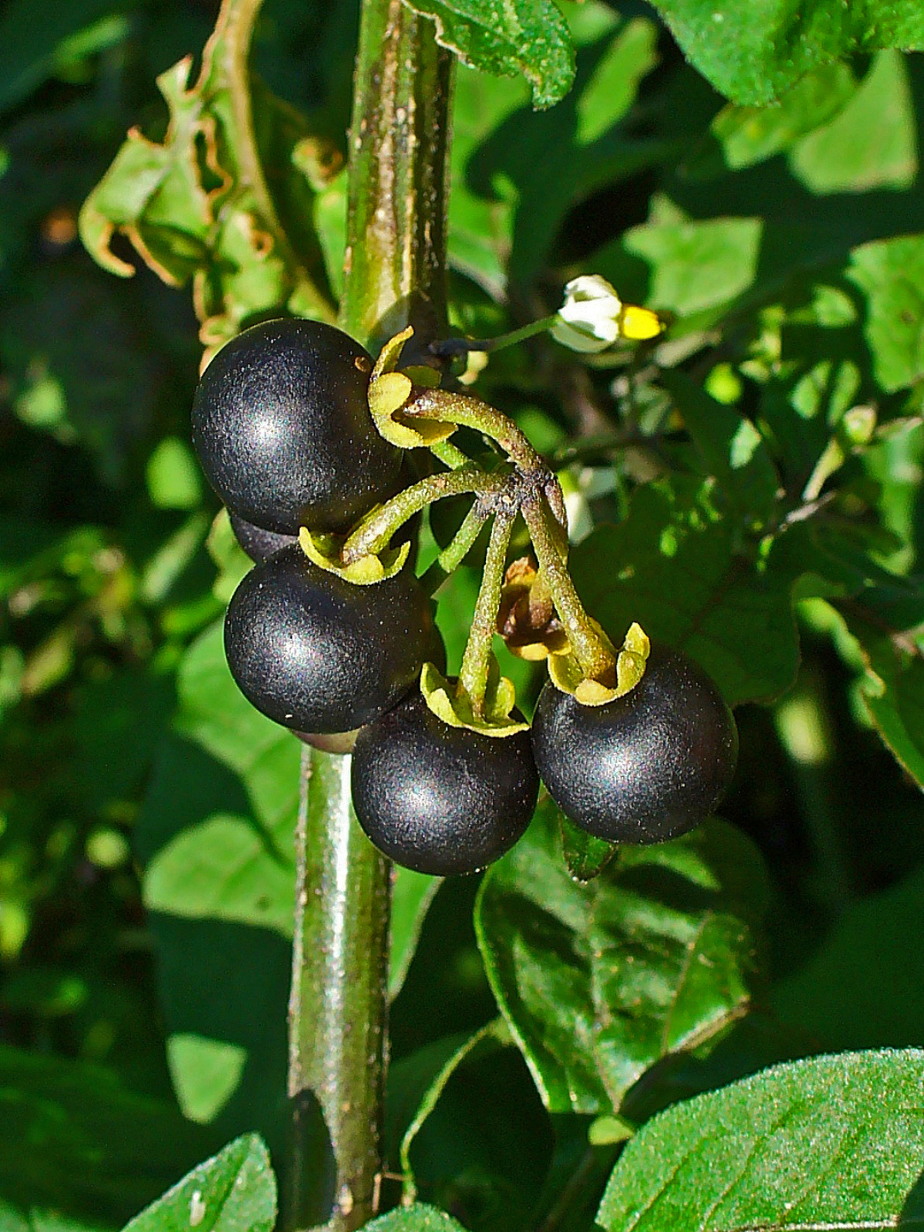 Solanum nigrum, Solanaceae, European Black Nightshade, Duscle, Garden Nightshade, Hound's Berry, Petty Morel, Wonder Berry, Small-fruited Black Nightshade, Popolo, fruits. Karlsruhe, Germany.